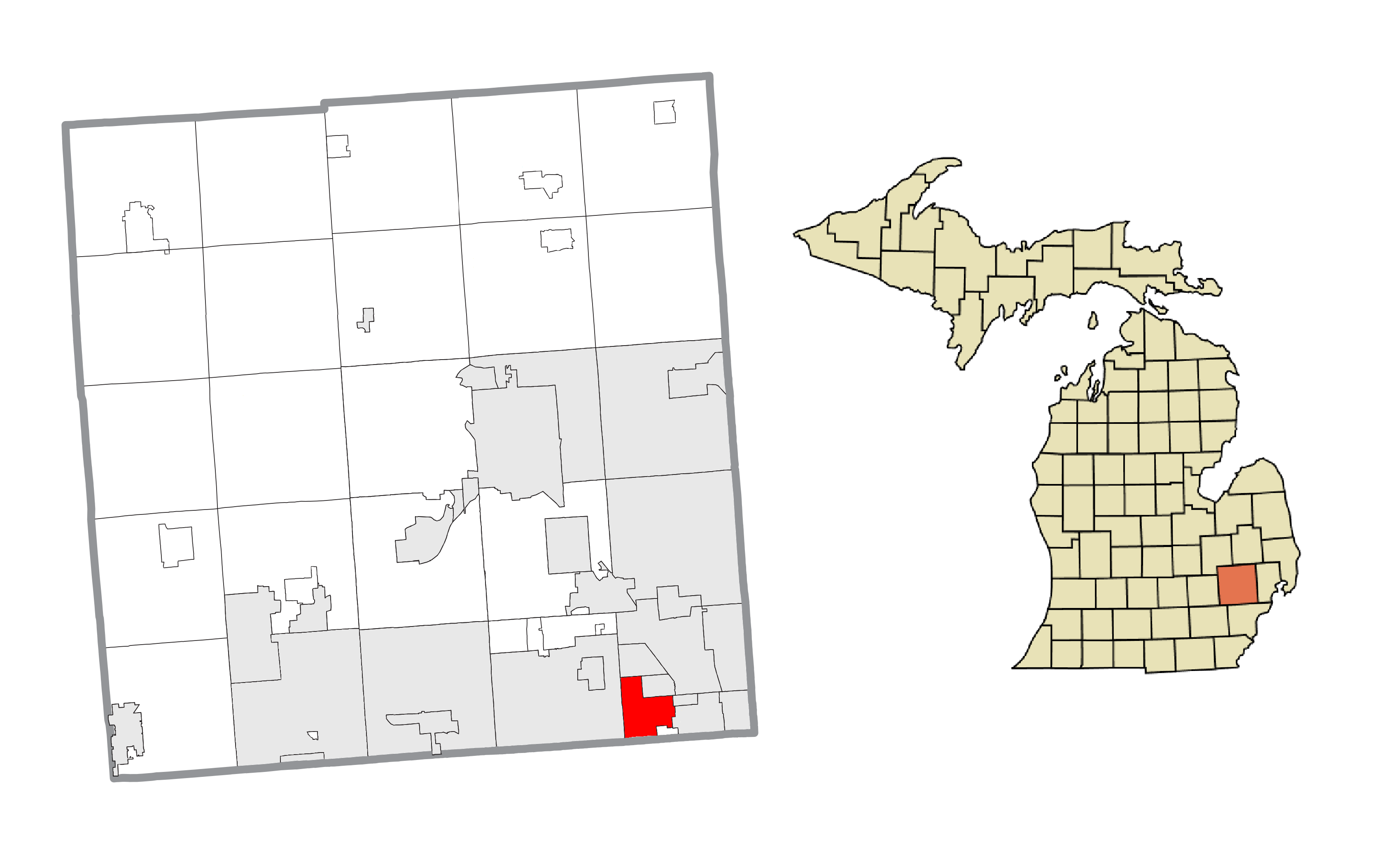 Oak Park, MI